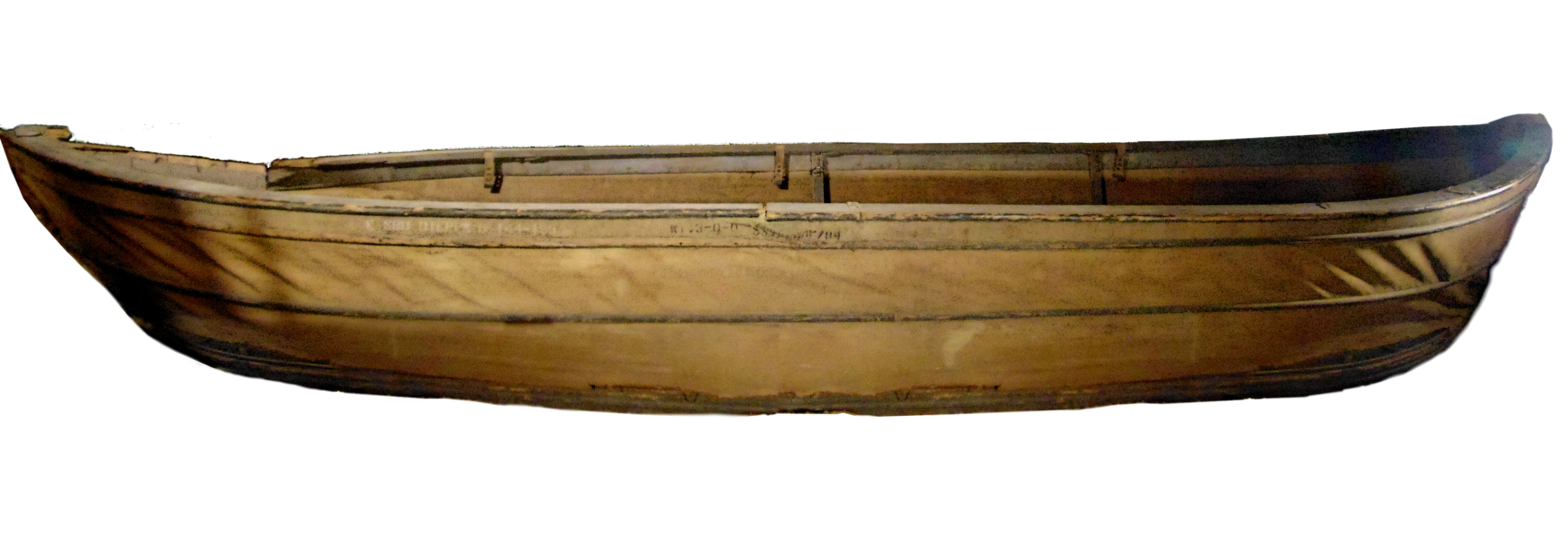 On 20 September 1944 Allied forces op the US 504 Parachute Infantry regiment (Part of the 82nd US Airborne Division) crossed the Waal with the goal of capturing the bridges over the river. The boats used in the crossing were collapsible British Goatley boats. The only known remaining boat used during the actual Waal crossing can be found in the National Liberation Museum 1944-1945 in Groesbeek, the Netherlands. The boat is made out of wood and canvas and only weighs 330 pounds. This means the boat could be easily lifted and maneuvered. The main disadvantage was that the boats were very fragile. Photographed in the collection of the National Liberation Museum 1944-1945.